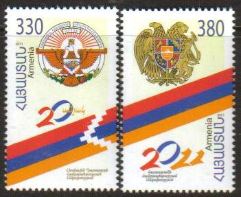 20th anniversary of Independence, Scott #882-883 A set of 2 stamps Date of Issue: September 13, 2011